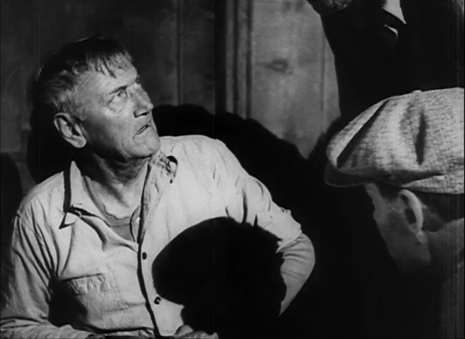 Trailer for the 1940 black and white film The Grapes of Wrath. Charley Grapewin as Grandpa William James Joad.